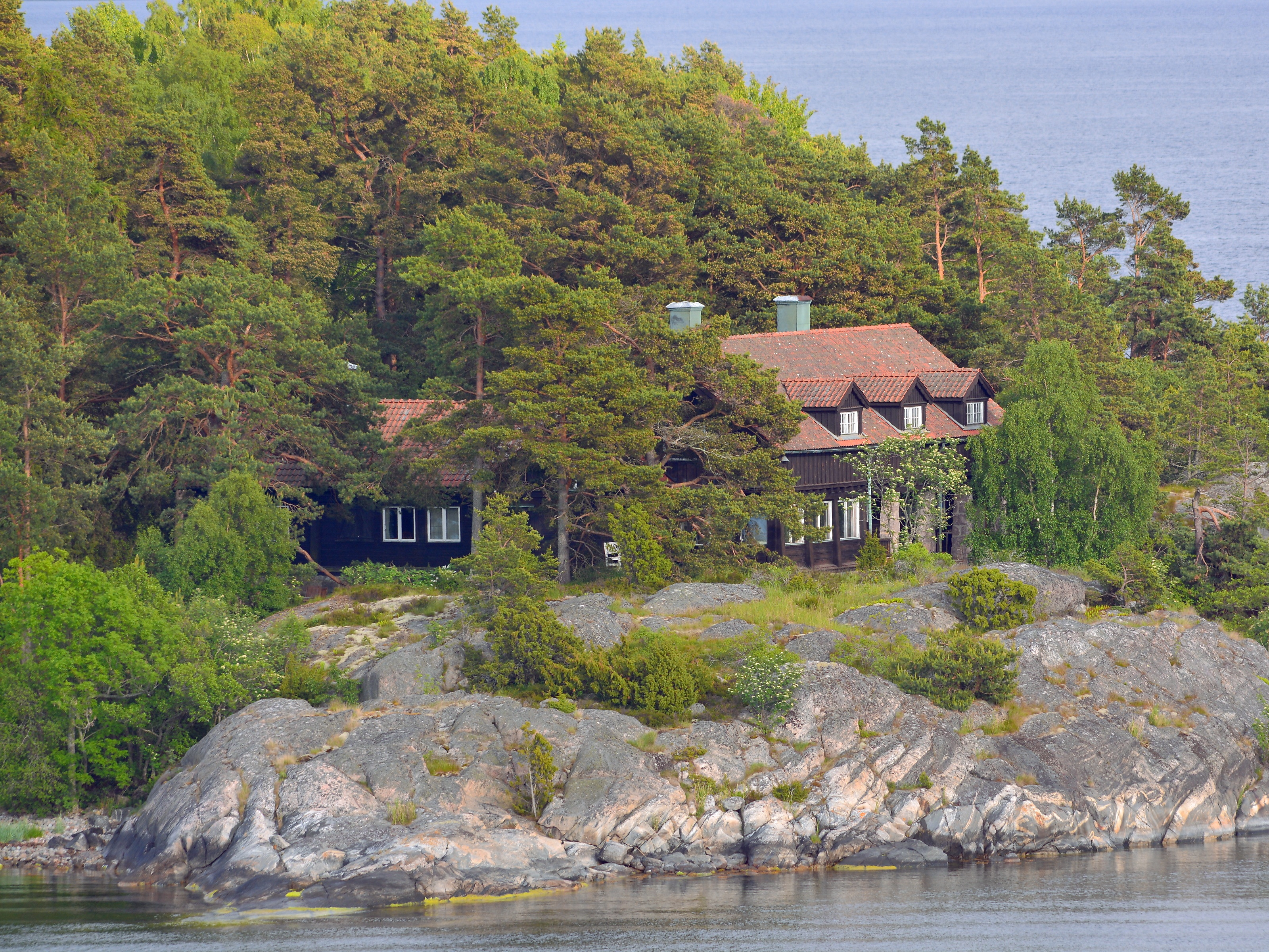 Ivar Kreugers's house at Ängsholmen near Kanholmsfjärden in Stockholm archipelago.